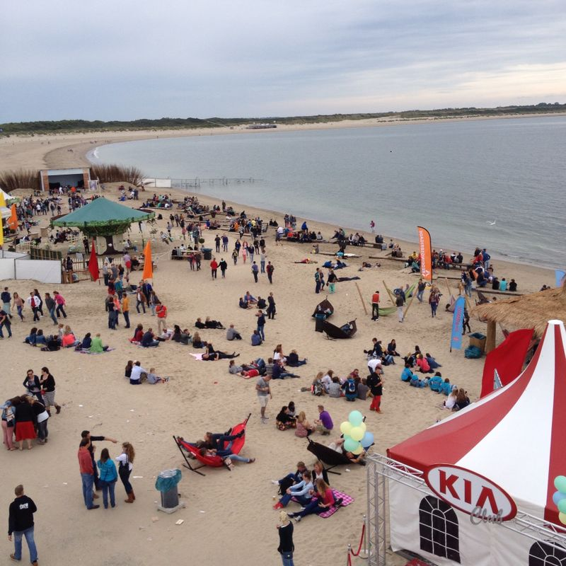 concert at sea 2014